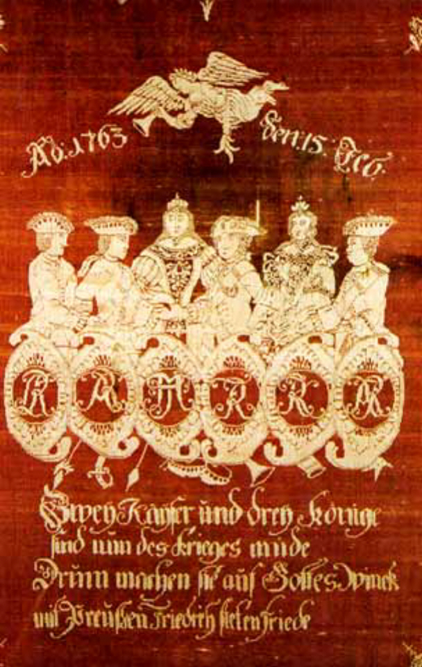 Allegorical representation of the Treaty of Hubertusburg